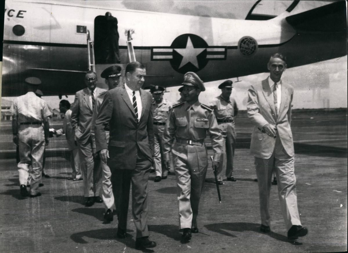 E13WF8 Mar. 27, 2012 - James H. Douglas, U.S. Secretary of The Air Force - - arrive in Saigon. He was greeted on arrival by Gen. Le van kim (centre), and members of US Embassy in Saigon.